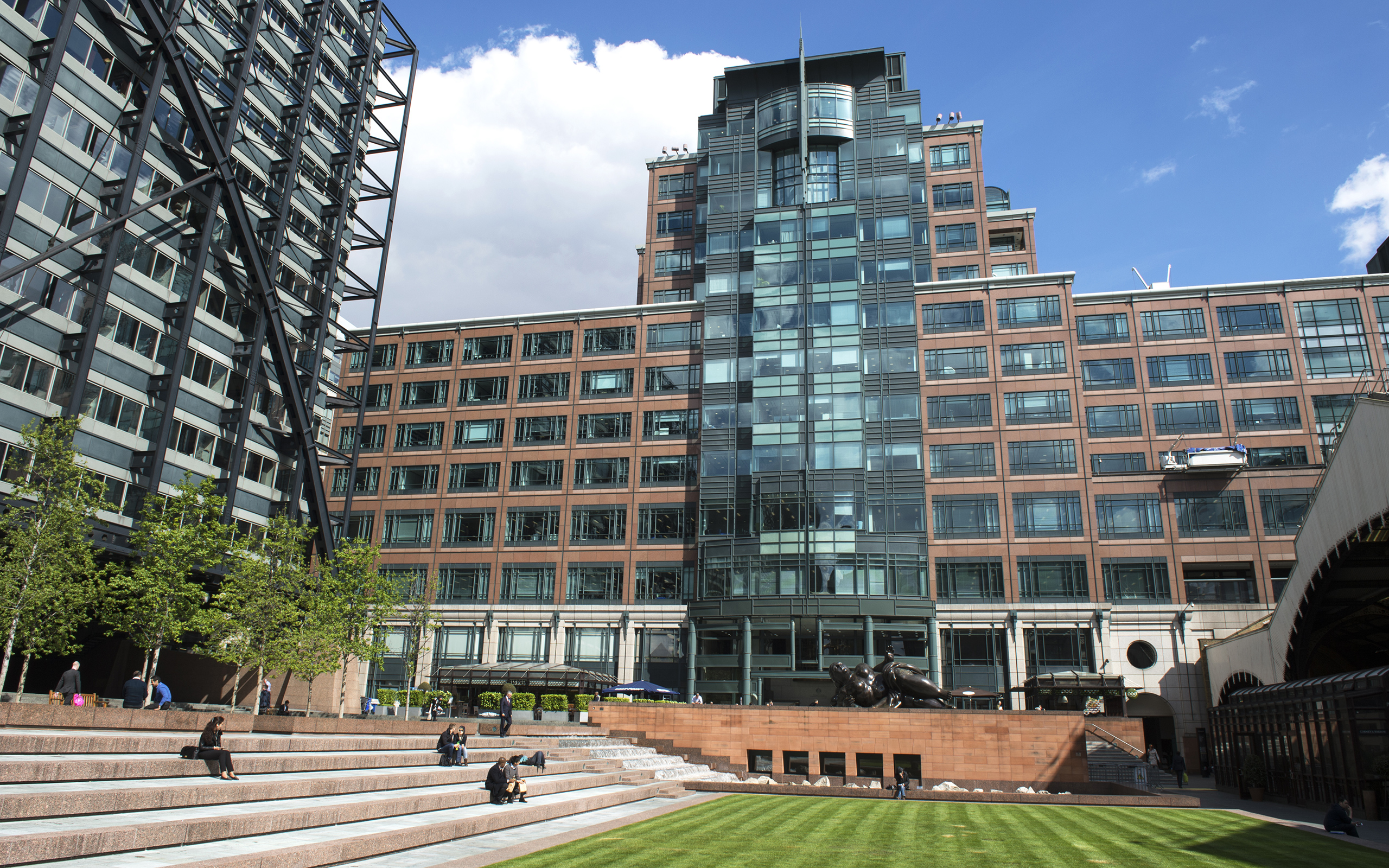 View across Exchange Square of the European Bank for Reconstruction and Development Headquarters (EBRD), London, United Kingdom